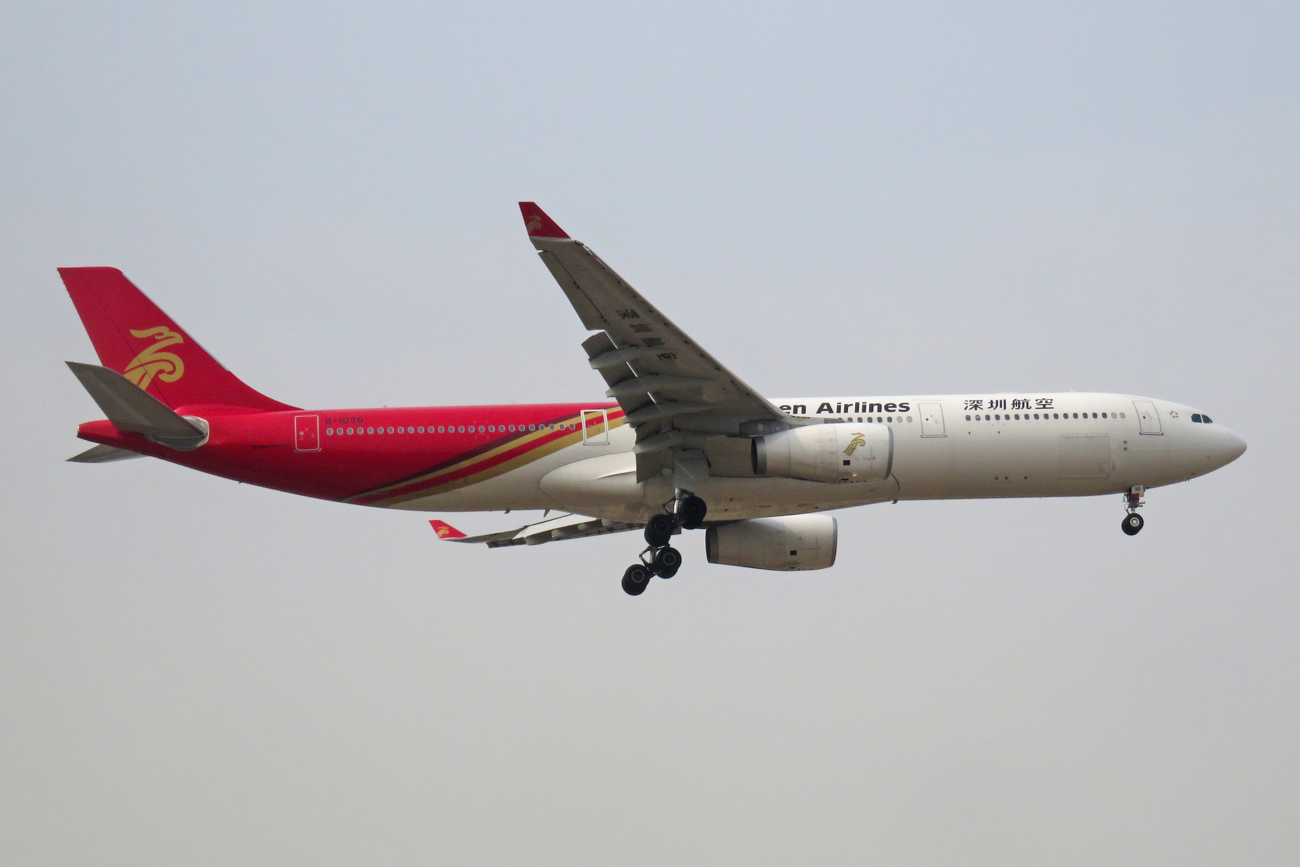 Shenzhen Air 9101 from Shenzhen.